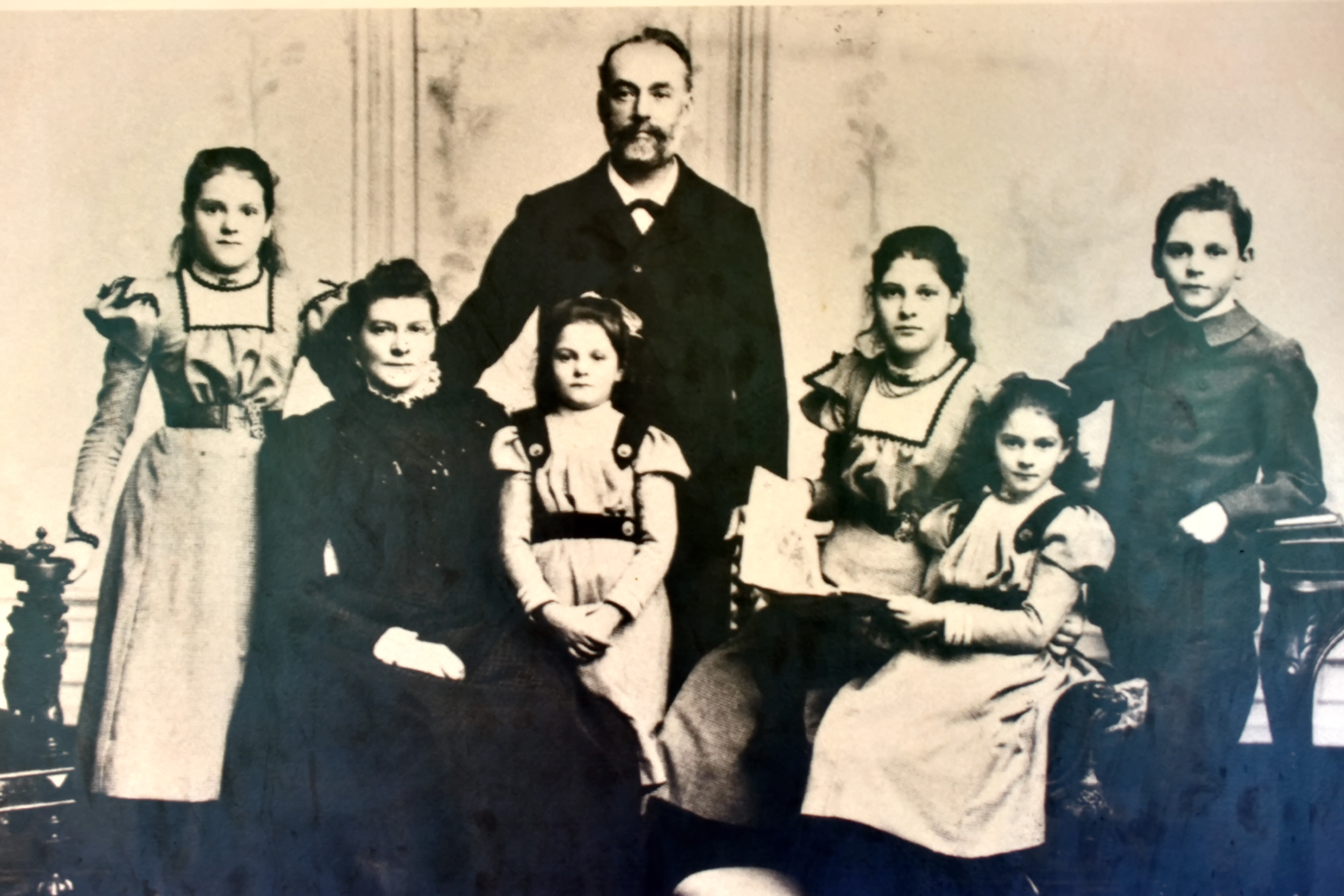 Duttweiler family. From left to right: Maria, Elisabeth, Gottlieb sr., Anna, Margaretha, Gottlieb jr.